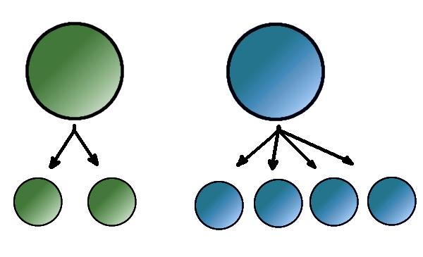 Depiction of reproductive fitness.